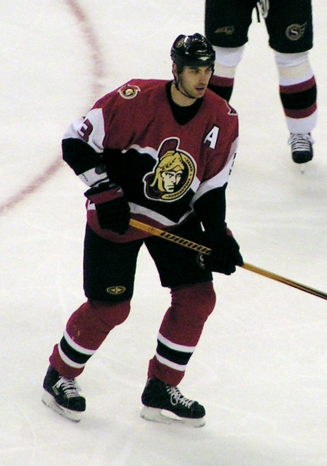 Zdeno Chara, picture taken by Janothird January 28th, 2006 in Ottawa